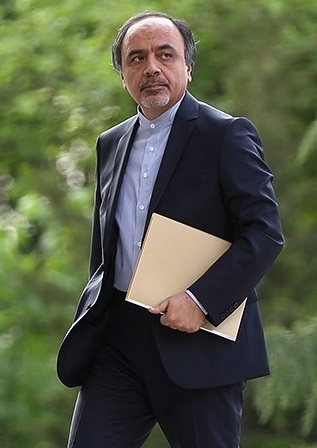 Hamid Aboutalebi